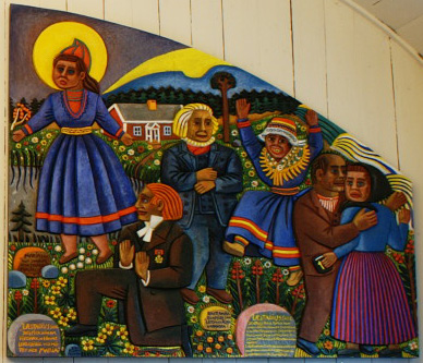 The right wing of the altar piece in Jukkasjärvi church, made by Bror Hjorth, shows preacher Lars Levi Læstadius kneeling before the Sámi women Maria, who inspired him. Above Læstadius, to the right is Johan Raattamaa.